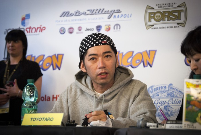 Fumetti, al Comicon lezioni di manga da Toyotaro